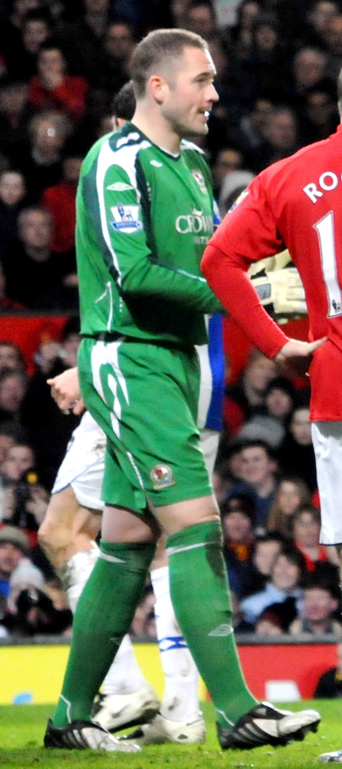 Wayne Rooney of Manchester United, Paul Robinson of Blackburn Rovers